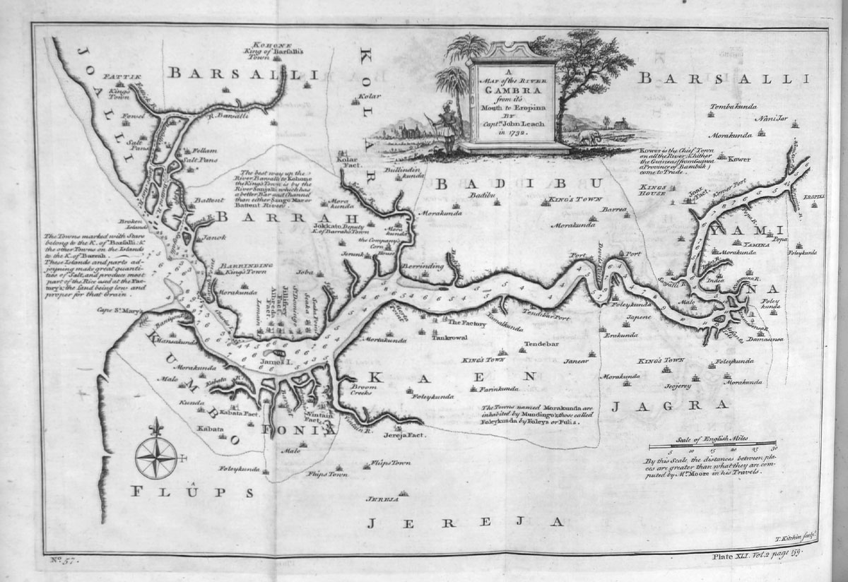 Map of the Gambia River and Surrounding Area, 1732 map by Capt John Leach. Reproduced in Thomas Astley A New General Collection of Voyages and Travels (London, 1745 47)